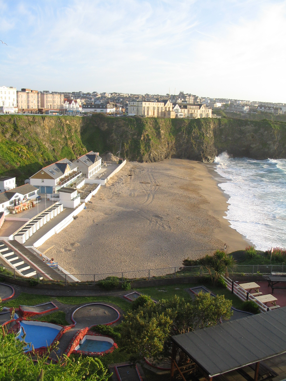 Tolcarne Beach, Newquay.Newquay-cliffs-5